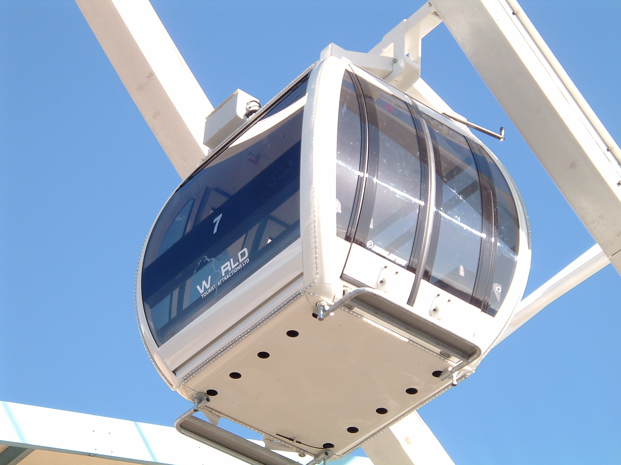 One of the pods on the 54 metre high Yorkshire Wheel, that was installed at the National Railway Museum in York. It was sited 53°57′35.81″N 1°5′44.42″W / 53.9599472°N 1.0956722°W next to and in line with the southern wall of the museum's Great Hall. Construction started in March 2006 and the wheel operated from 12 April 2006 until 2 November 2008, being dismantled shortly afterwards.